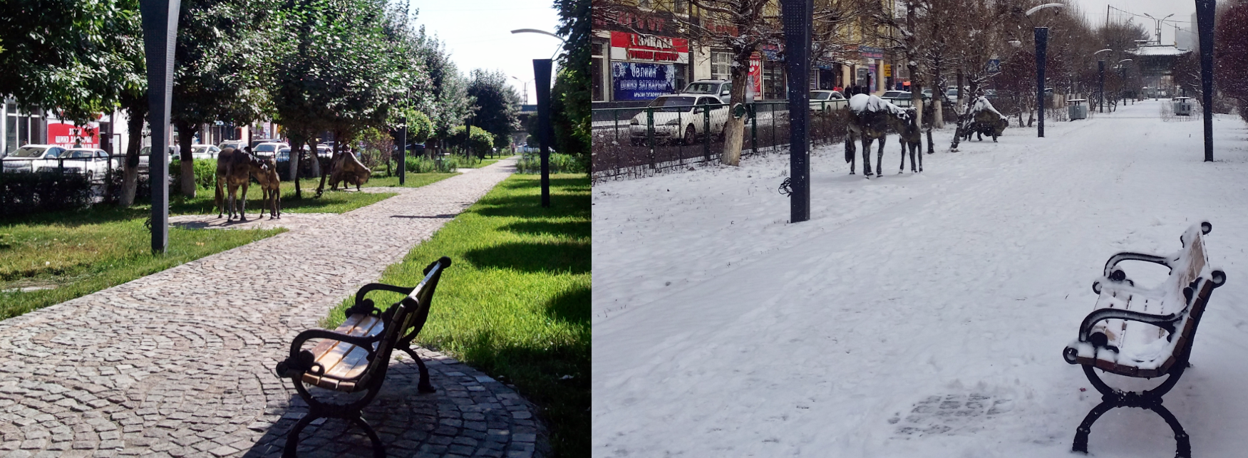 Монгол: Summer and Winter in Mongolia in 2015.